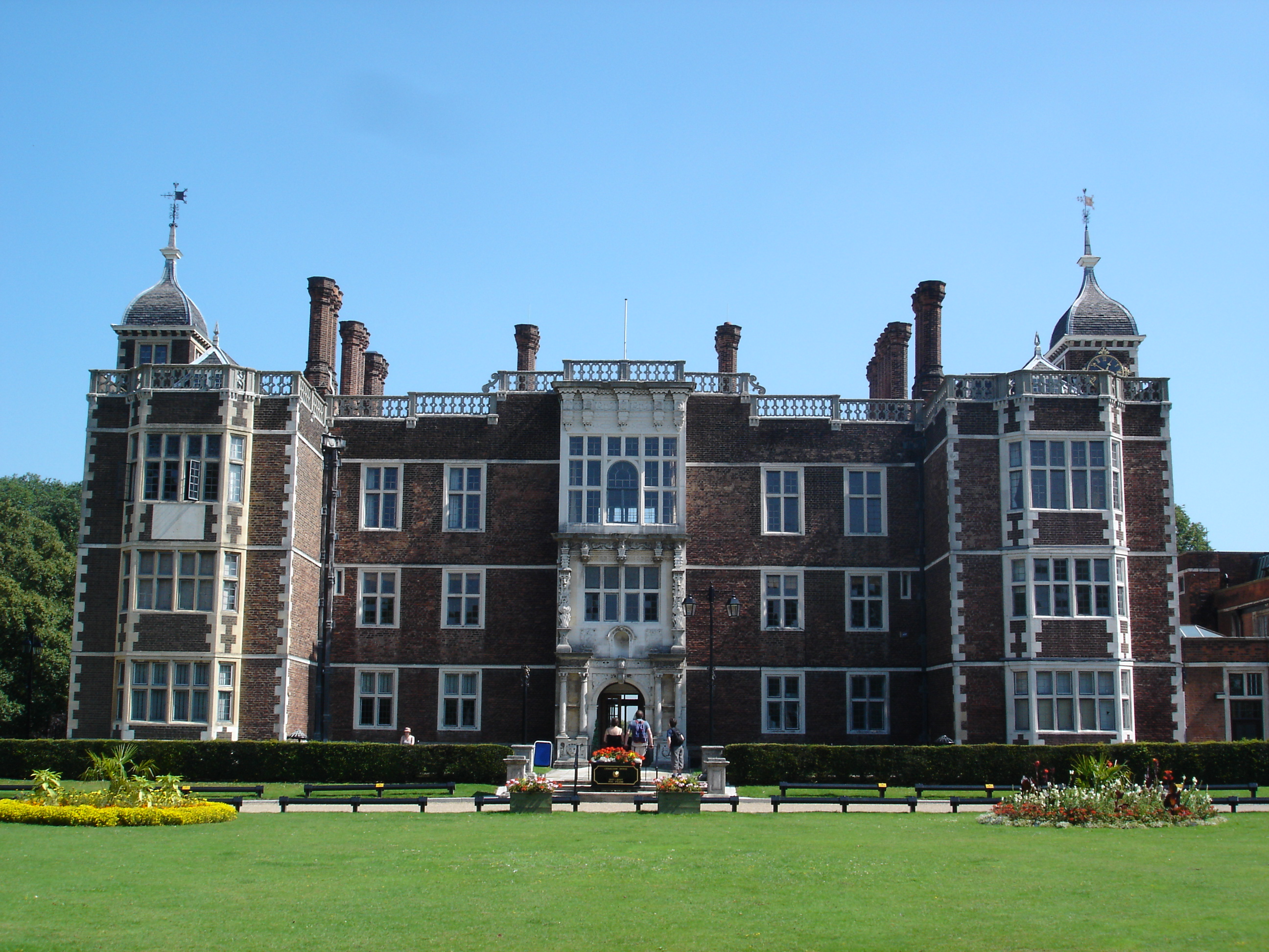 Charlton House, London